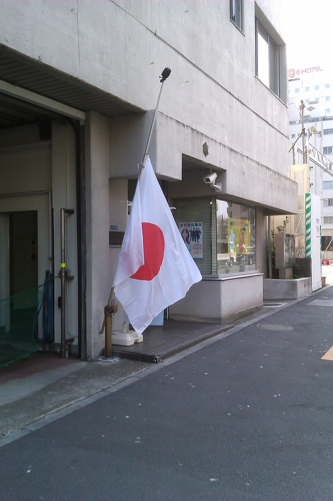 Japanese flag at half-mast after earthquake 2011/03/11 Tokyo